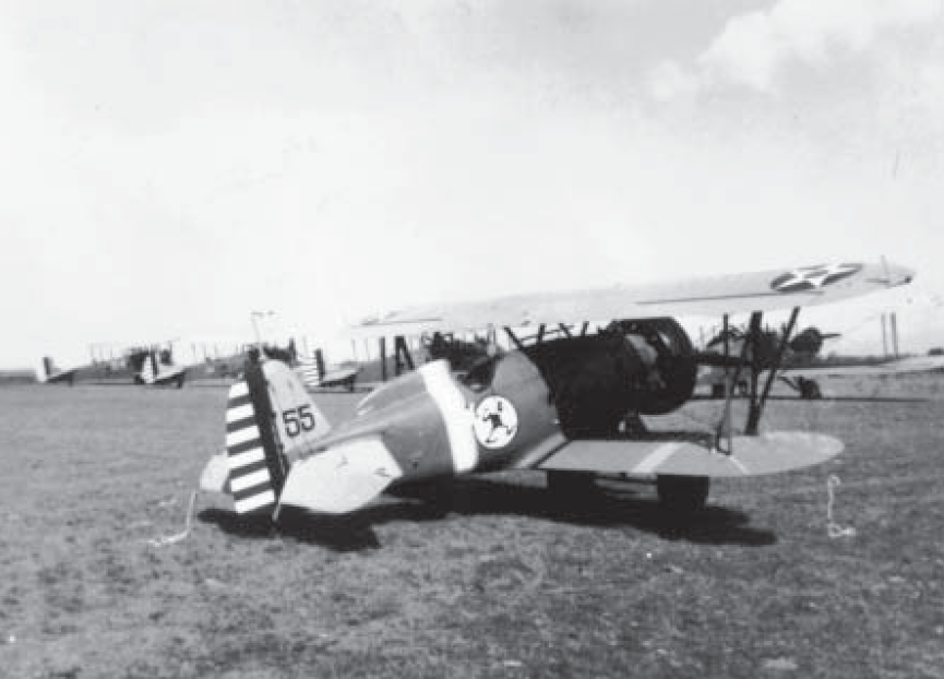 25th Bombardment Squadron Boeing P-12e France Field 1923